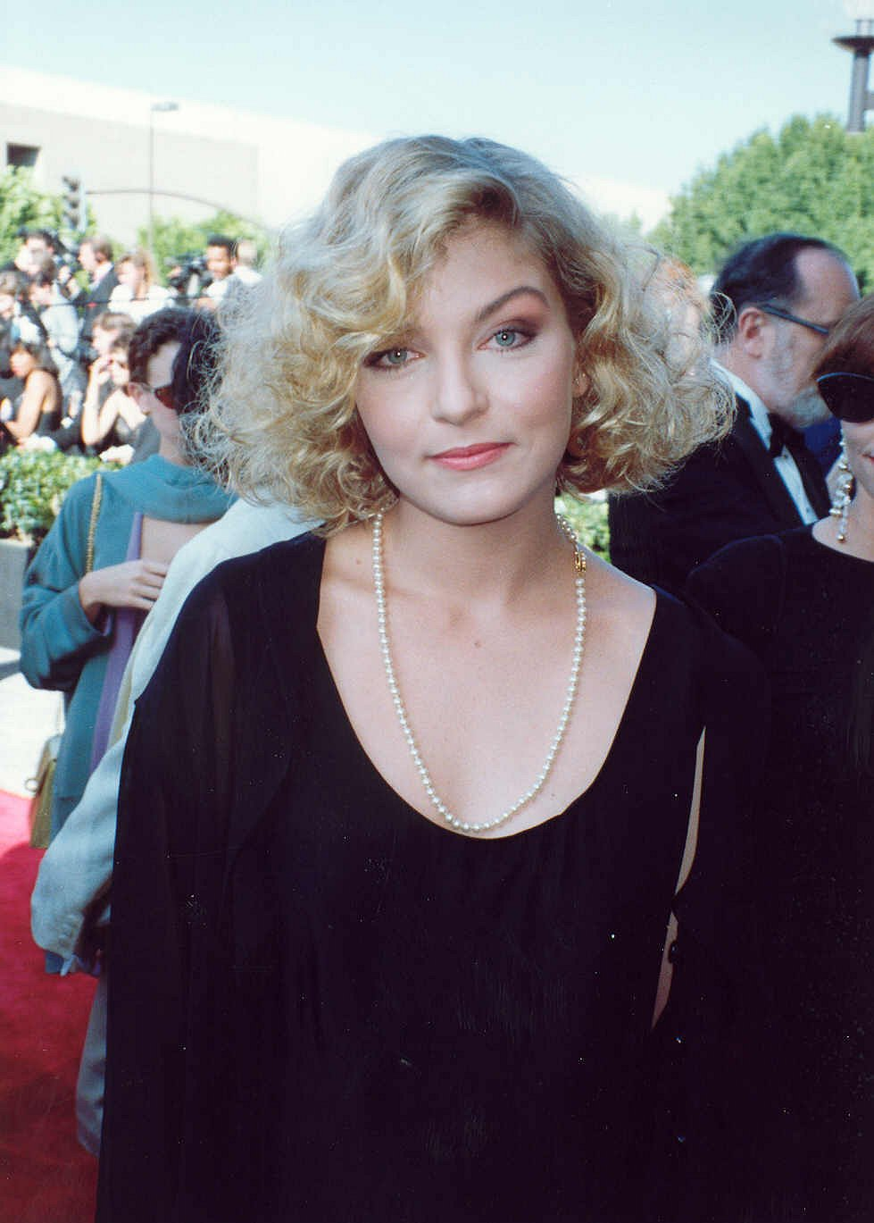 Actress Sheryl Lee at 42nd Emmy Awards - Governor's Ball